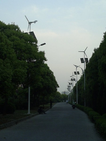 Small wind turbines in Shanghai, China (Minhang District, Hongxin Rd.)